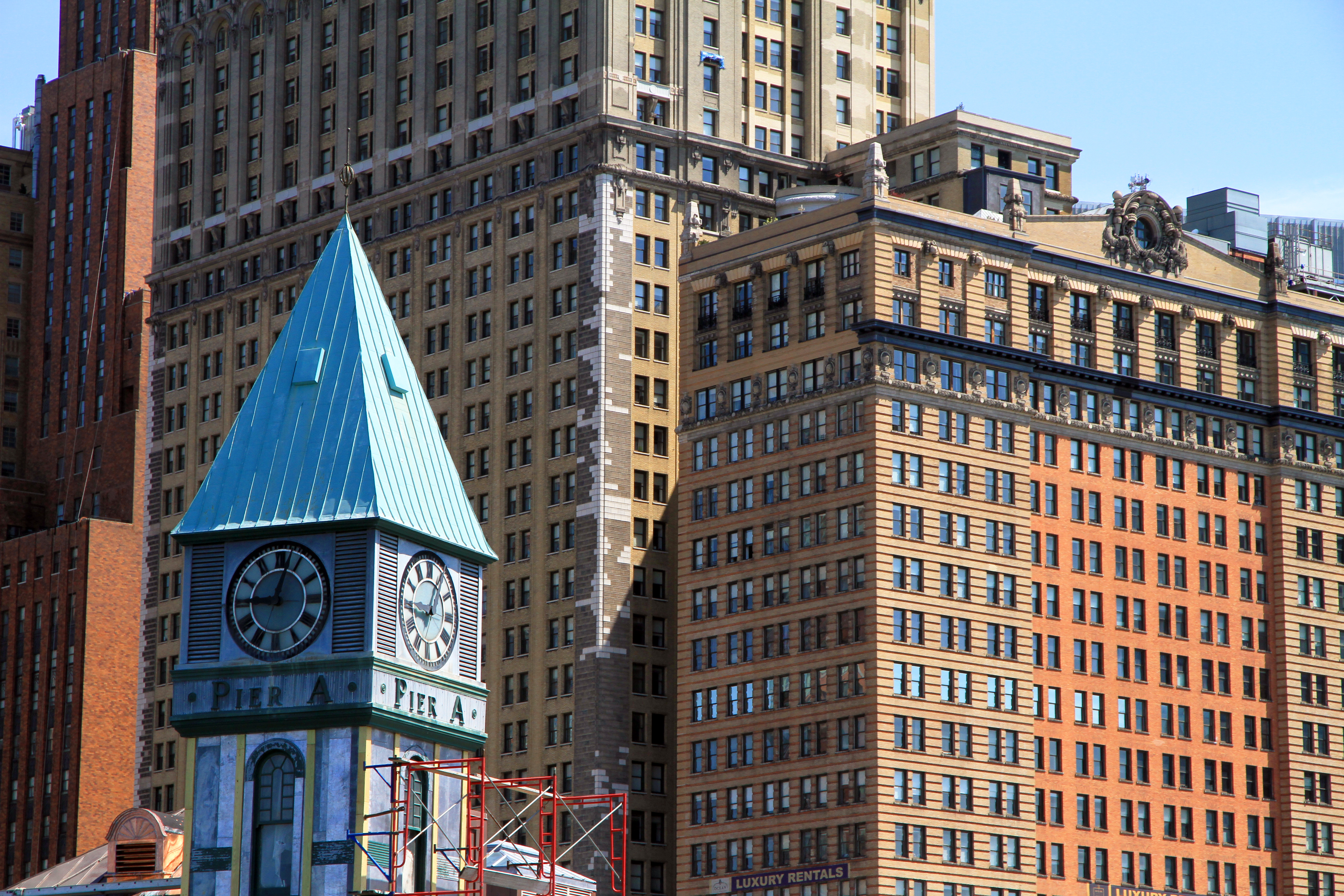 Pier A and Battery Park City